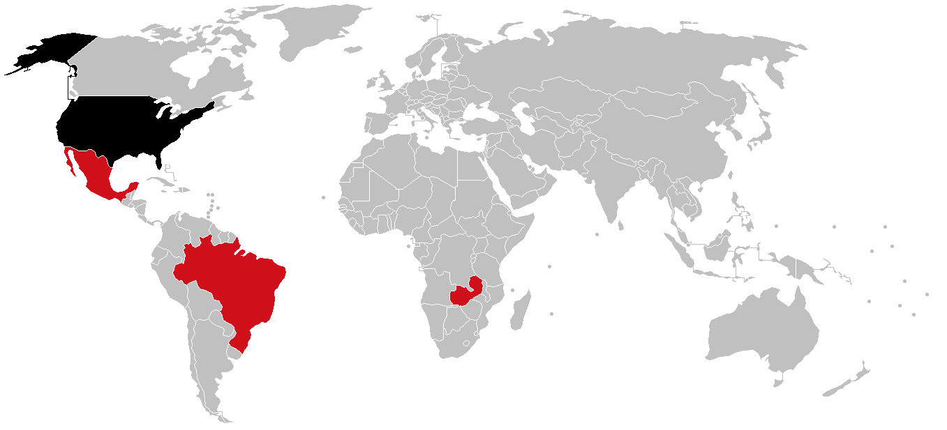 This map shows countries with more than 1.000.000 Other Christians in 2010. Data taken from Pewforum Christianity Report. Legend: More than 10 million More than 1 million